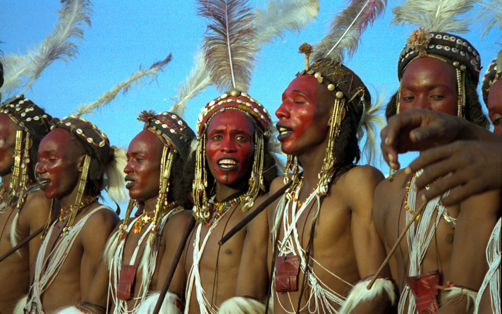 Contestants from the Wodaabe ethnic group sing and dance at the Gerewol festival while flaunting the whiteness of their eyes and teeth. Photographed 1997 in Niger.